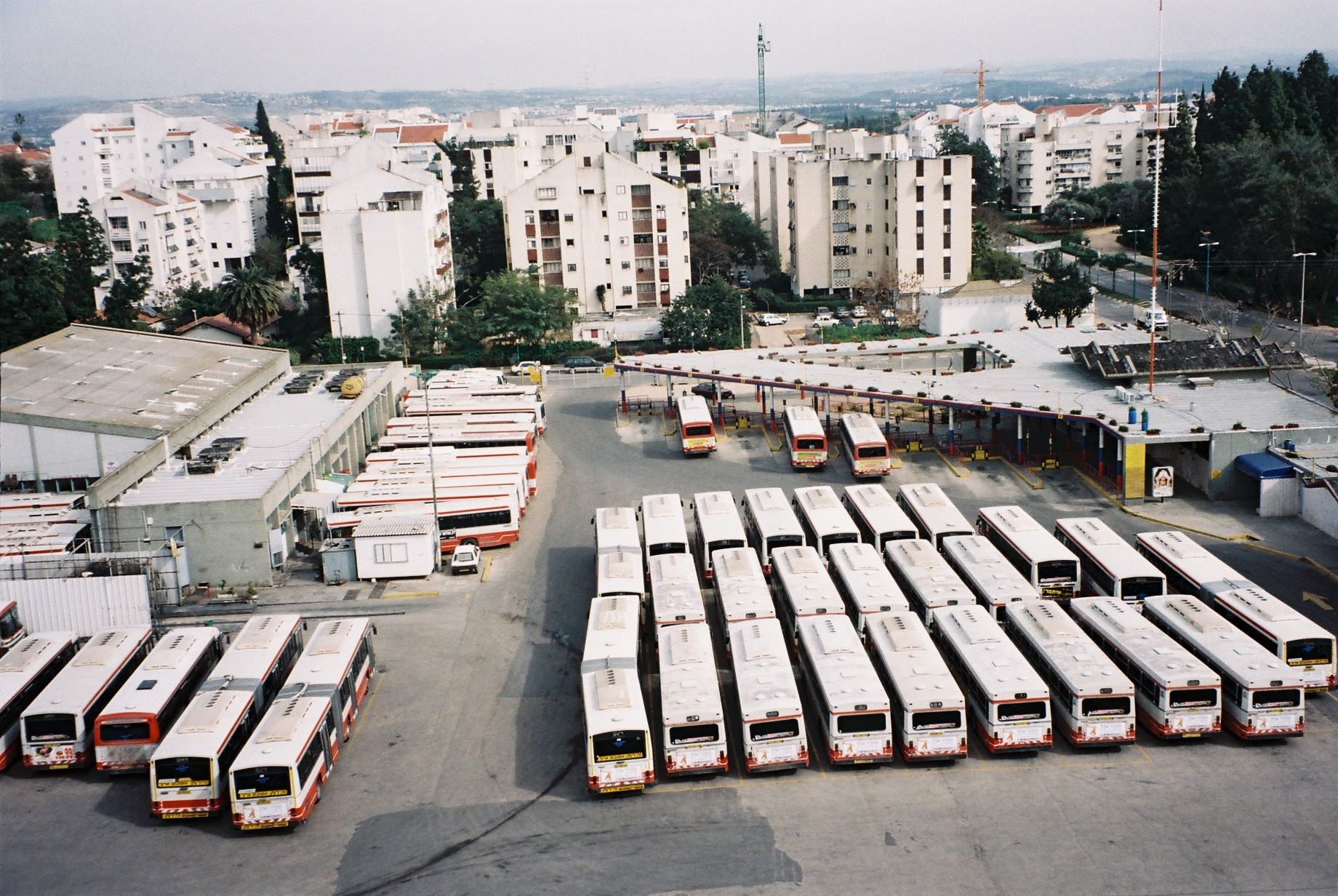 Kfar Saba central bus station, Israel, 1996